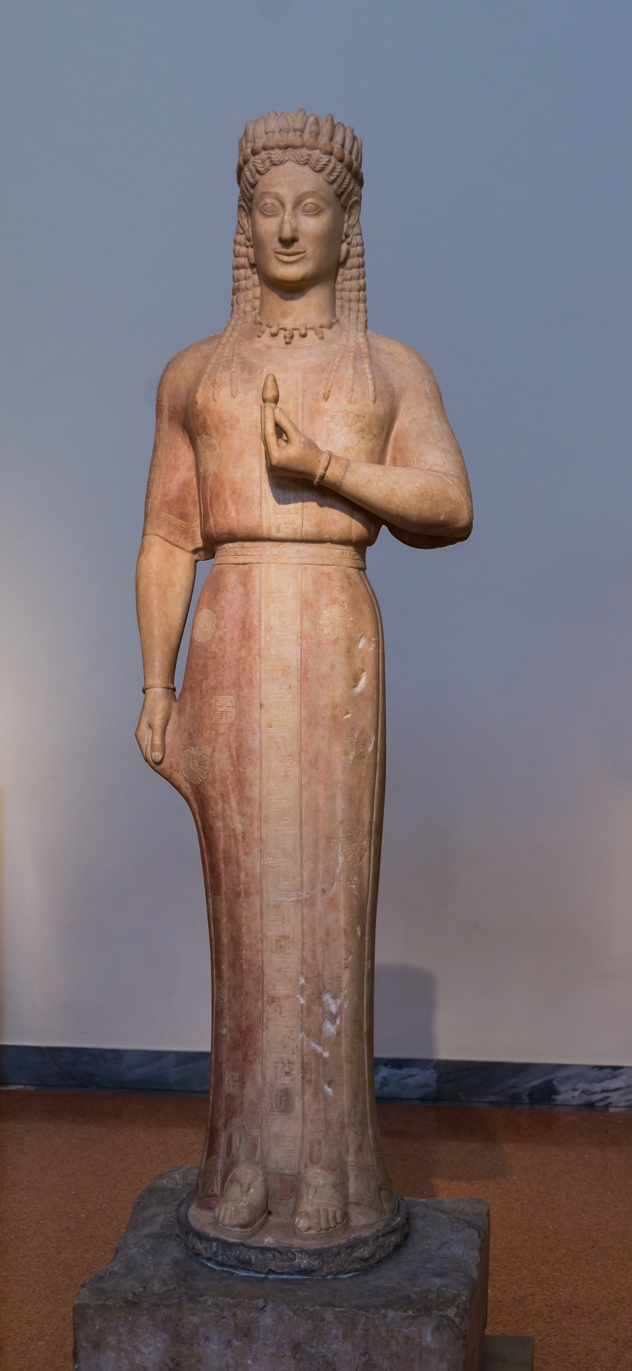 Korè. Parian marble. Found in Merenda (ancient Myrrhinous), Attica. The fully preserved statue stood atop of the grave of Phrasikleia, as it is indicated by the inscription on the pedestal. Many remains of painted decorations on the chiton. One of the most important work of the ripe Archaic style. Made by the sculptor Aristion from Paros. 550-540 BCE. N°4889